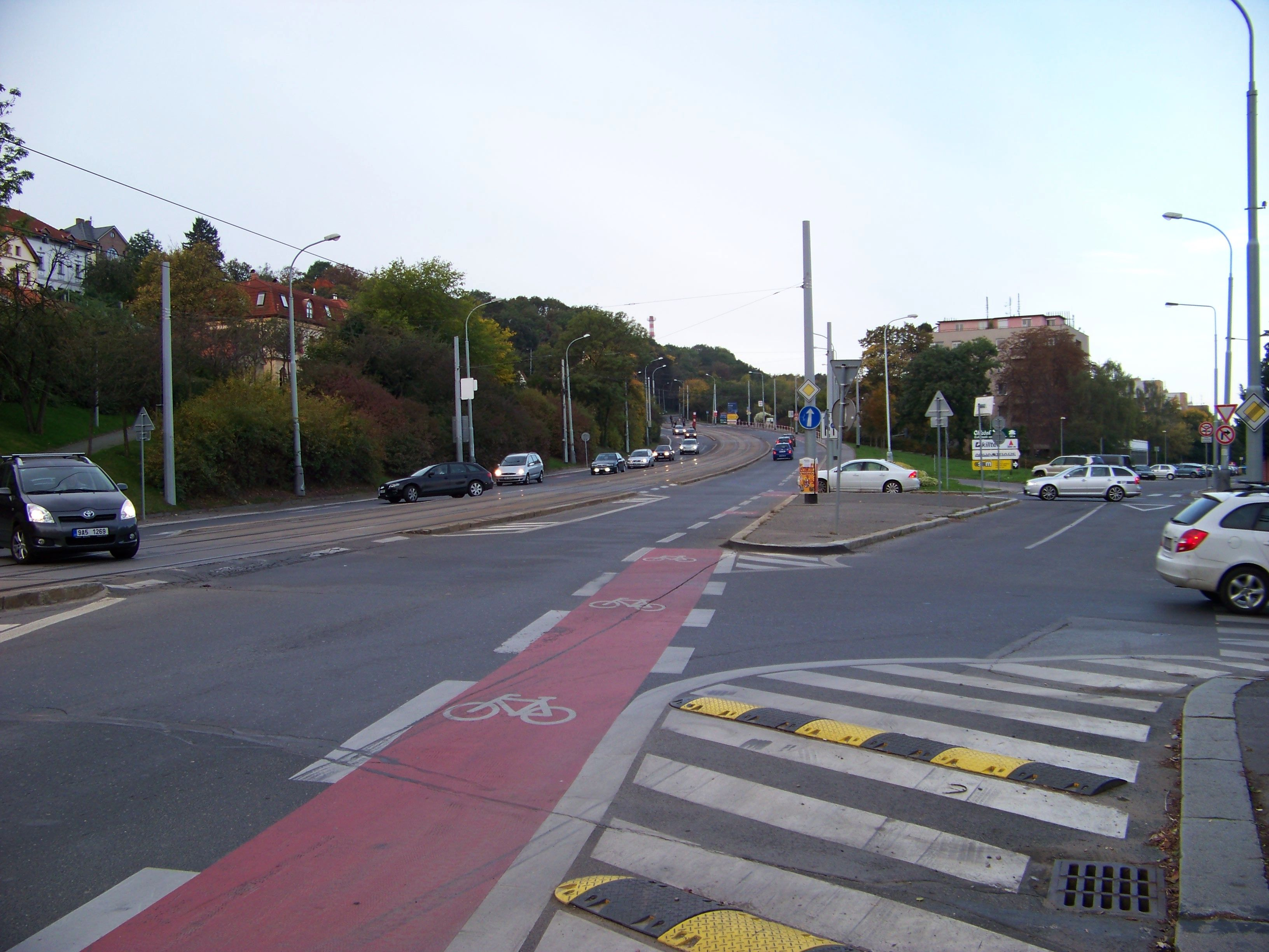 Prague-Střešovice, the Czech Republic. Na Petřinách and Střešovická street.